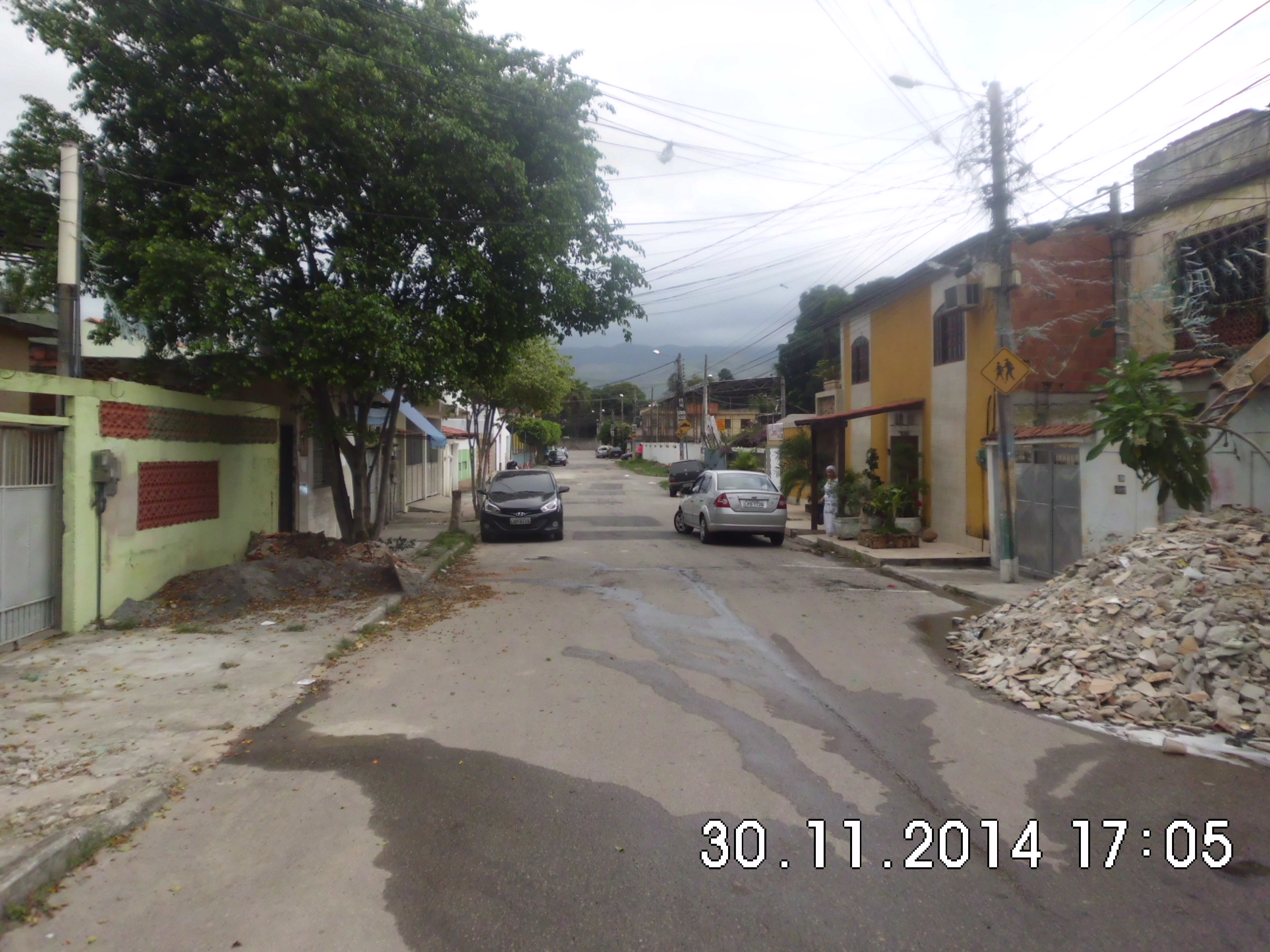 Rua Próxima a pracinha 1 do Grajaú